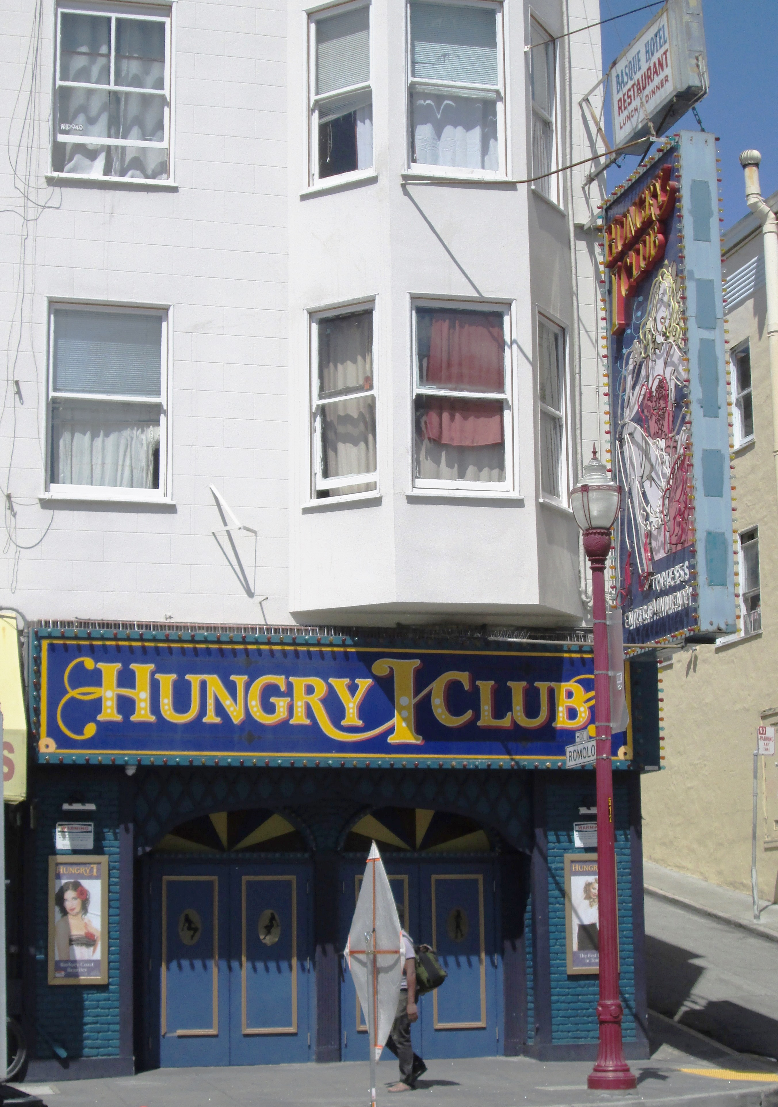 The hungry i nightclub, located at 546 Broadway at the corner of Romolo Place in the North Beach neighborhood of San Francisco, opened in 1950. In its heyday it featured comedy and folk and other music, with acts such as Maya Angelou (as a Caribbean singer, early in her career), Woody Allen, Malcolm Boyd, Lenny Bruce, Godfrey Cambridge, Dick Cavett, Professor Irwin Corey, Bill Cosby, the Gateway Singers, Vince Guaraldi, The Kingston Trio, Tom Lehrer, The Limeliters, John Phillips (of the Mamas & the Papas, who led the house band, The Journeymen), Mort Sahl, Ronnie Schell, Barbara Streisand, Jackie Vernon, We Five, Jonathan Winters, and Glenn Yarborough, among others.The club moved to Ghiradelli Square in 1967, where it was primarily a rock venue; it closed there in 1970. The current club on Broadway is a strip club.